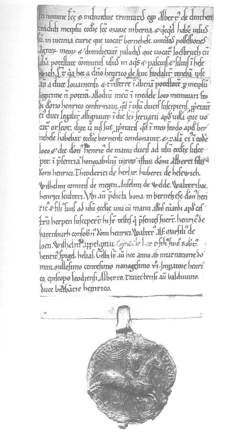 Oorkonde van Albert van Dinther waarin hij Bernheze overdraagt aan de abdij van Berne in 1196